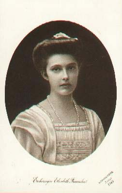 Elisabeth Franziska Archduchesse of Austria-Toscana, 1892–1930, daughter of archduchesse Marie Valerie, granddaughter of Emperor Franz Joseph